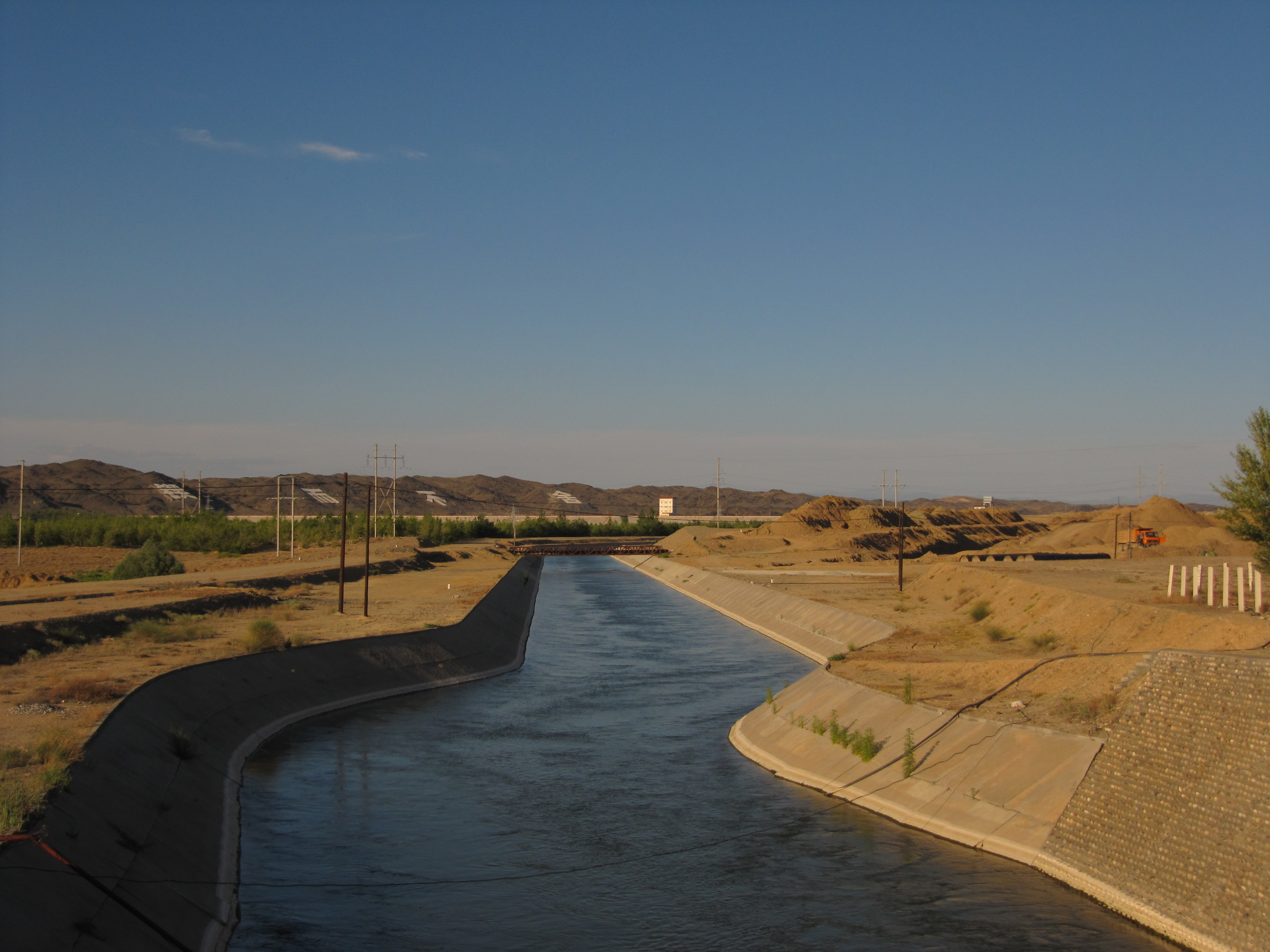 The head of the 300-km long canal carrying Black Irtysh water to Karamay oil-fields. The slogan on the hill slope on the opposite side of the Irtysh reads 锲而不舍 ("Perseverance"; literally, "Keep on chipping away, and don't give up")